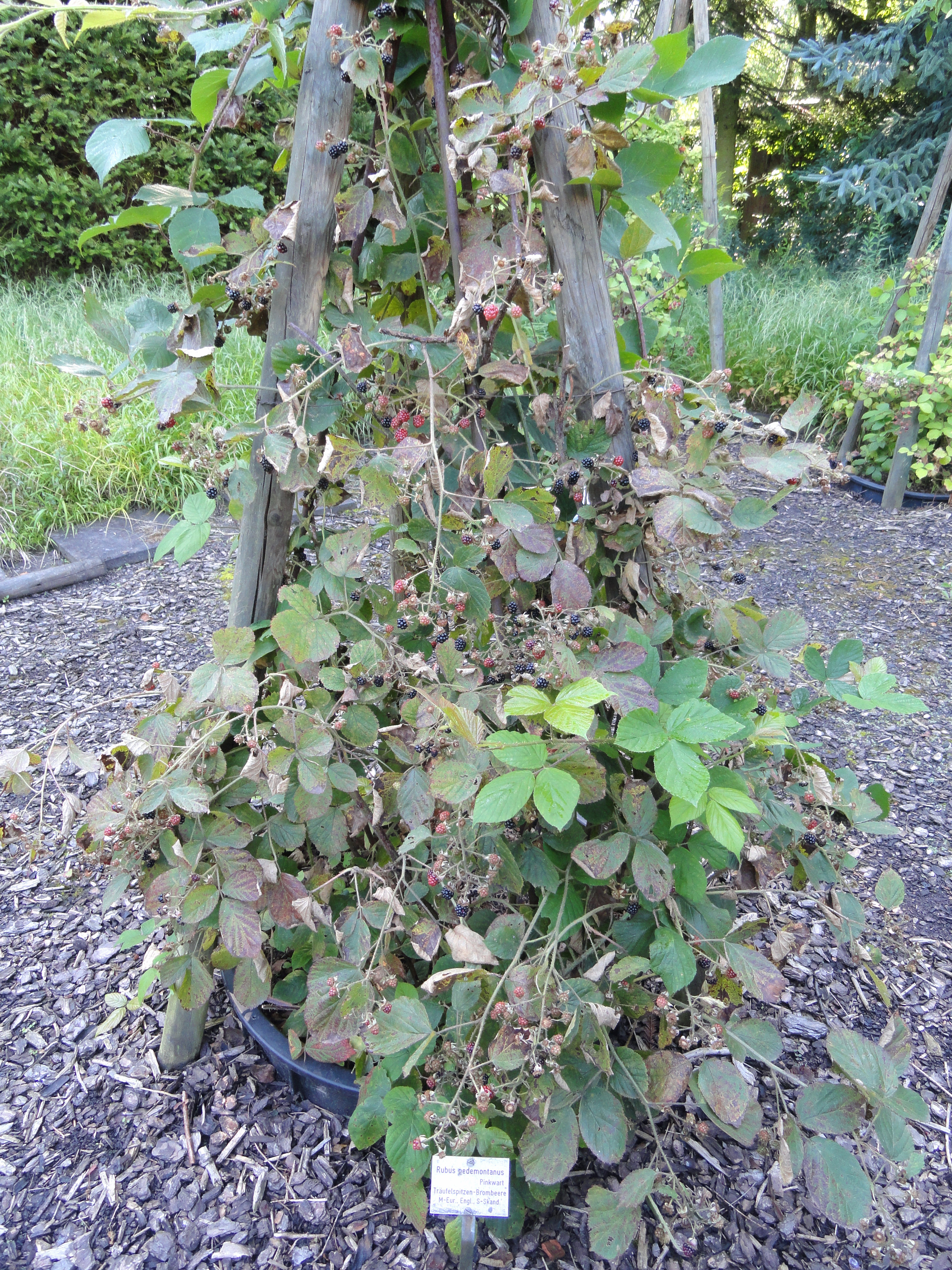 Botanical specimen in the Botanischer Garten, Frankfurt am Main, located at Siesmayerstraße 72, Frankfurt am Main, Germany.